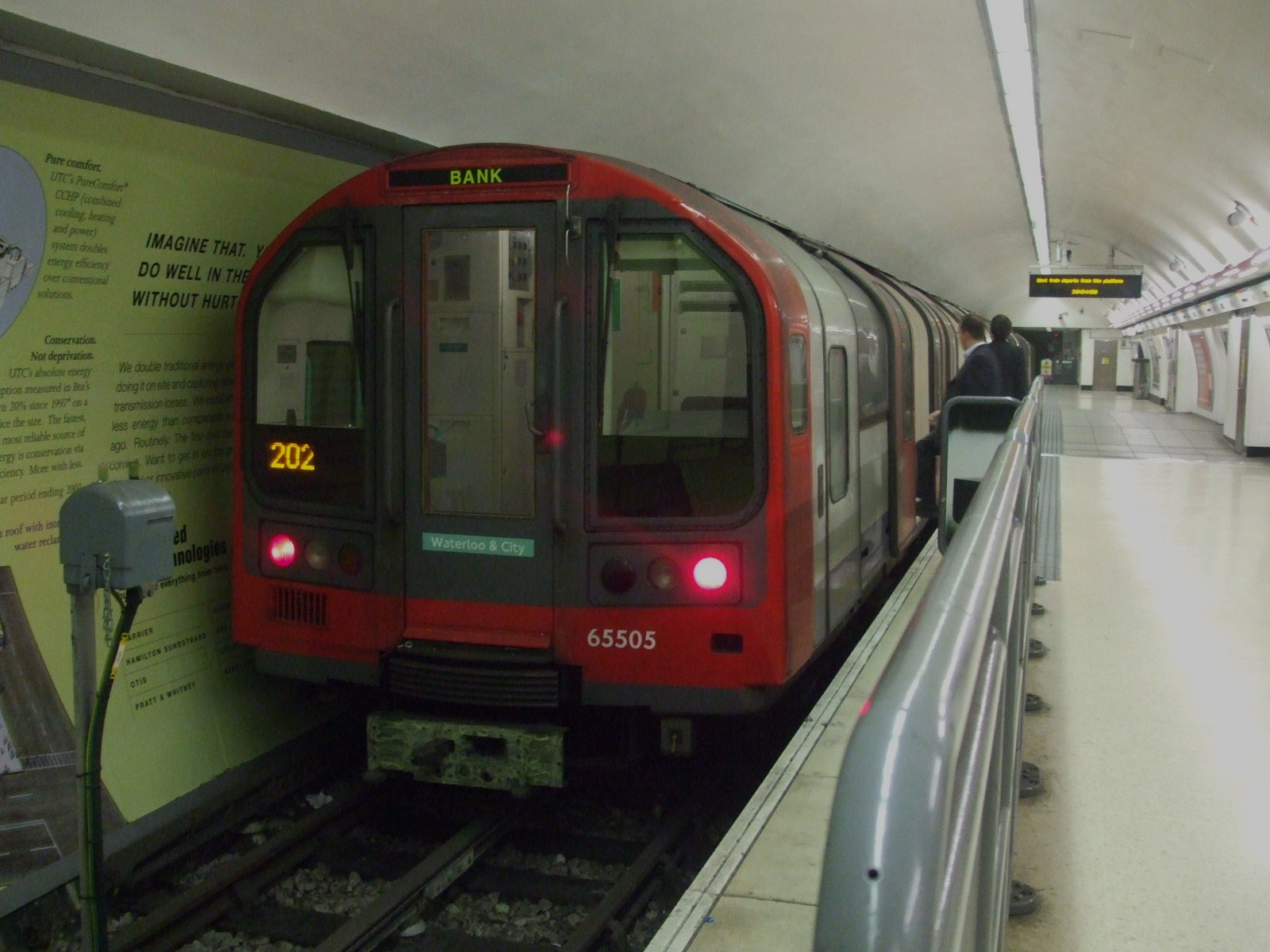 Waterloo & City line 1992 stock train at Bank tube station awaiting departure towards Waterloo